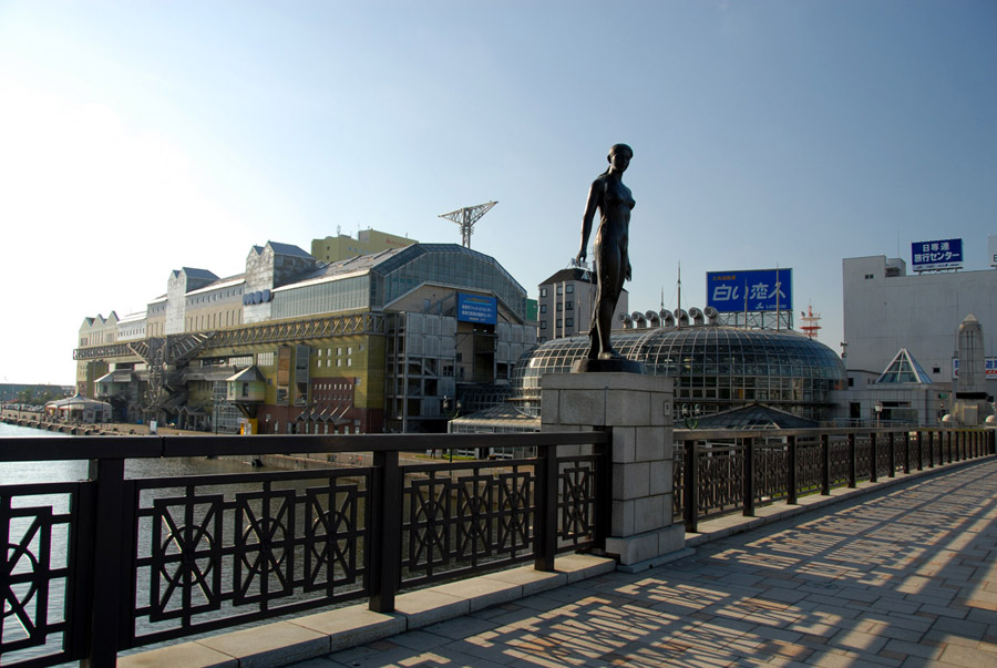 Nusamai Bridge is one of the most famous spot of Kushiro city, east Hokkaido.